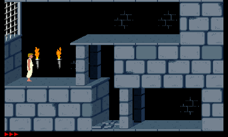 Screenshot of Free OpenSource Game SDLPOP (Prince of Persia)